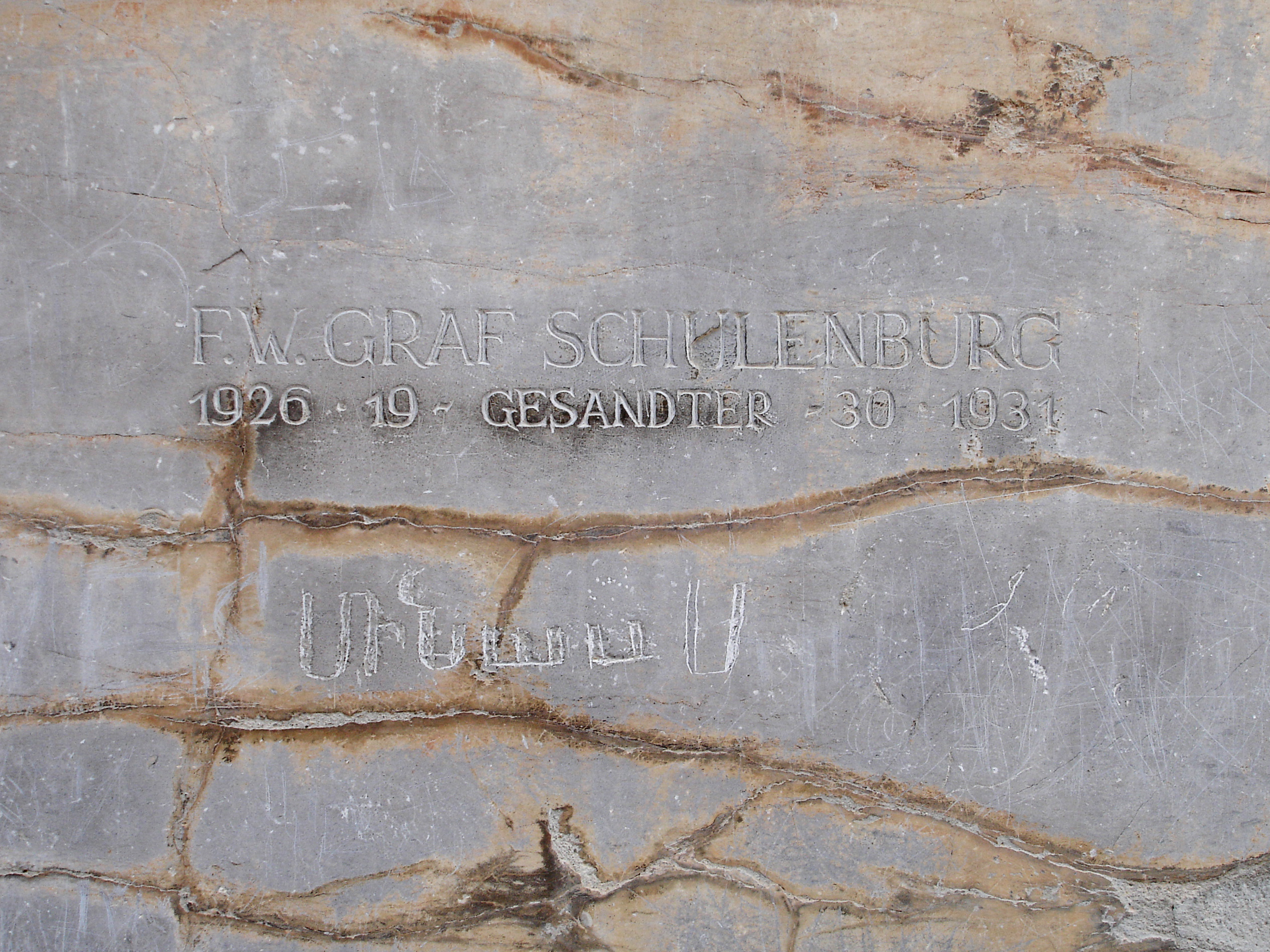 Friedrich Werner von der Schulenburg inscription on an ancient monument at the entrance of Persepolis (Iran)